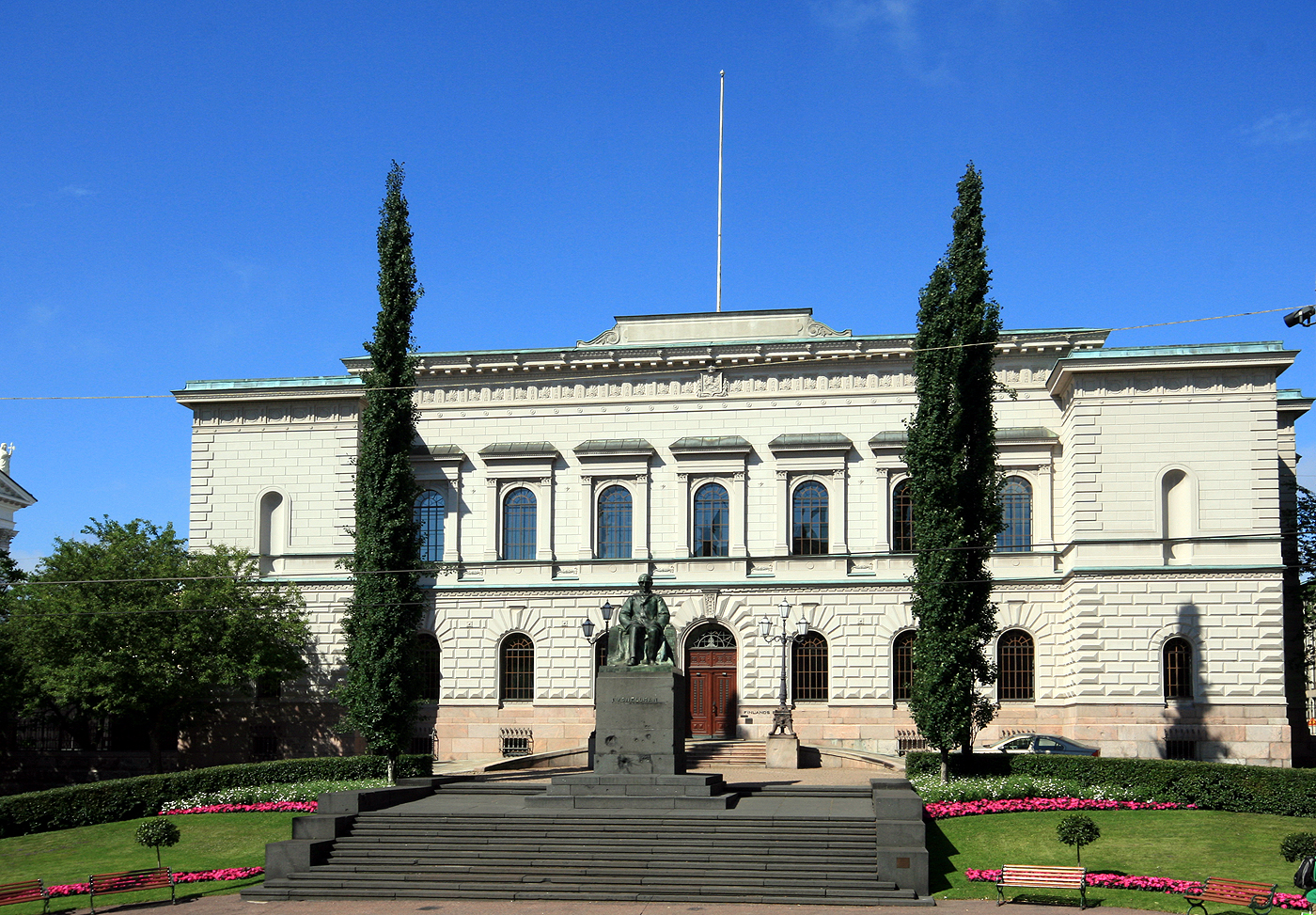 Bank of Finland, Helsinki. Architect: Ludvig Bohnstedt. Built 1882.